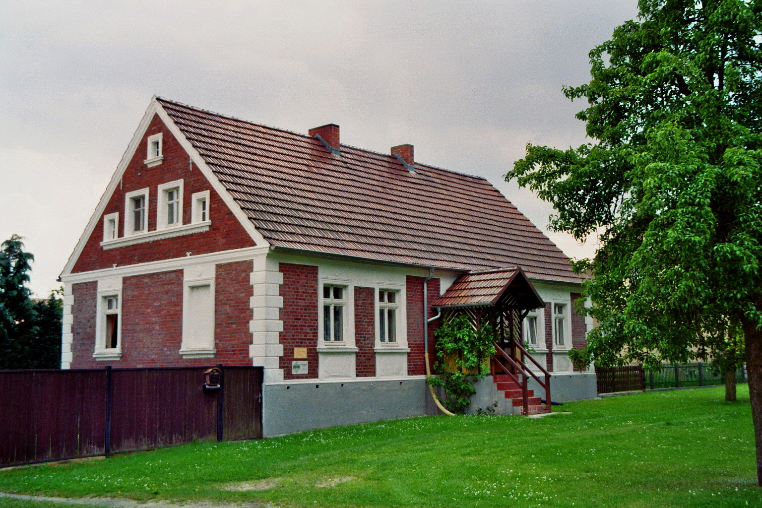 Listed house, No 14 Main Street (Hauptstraße 14), in Butzen, Spreewaldheide, Landkreis Dahme-Spreewald, Brandenburg, Germany.